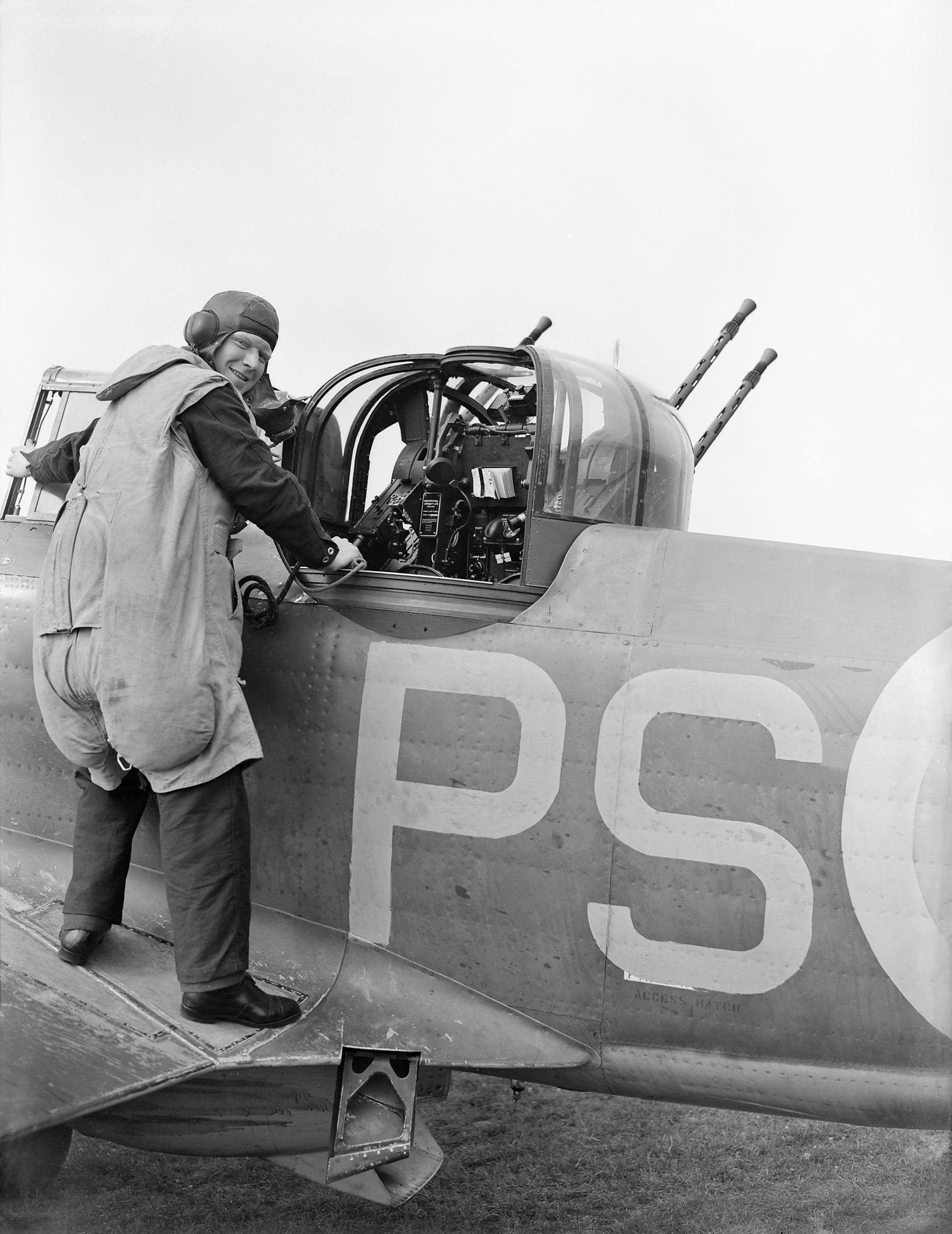 An air gunner of No. 264 Squadron RAF about to enter the gun turret of his Boulton Paul Defiant Mk I at Kirton-in-Lindsey, Lincolnshire, August 1940. An air-gunner of No. 264 Squadron RAF about to enter the gun-turret of his Boulton Paul Defiant Mark I at at Kirton-in-Lindsey, Lincolnshire. He is wearing the GQ Parasuit, supplied exclusively to Defiant gunners, which incorporates a parachute harness and life-saving jacket within a smock overall. Four .303 Browning machine-guns are mounted in the Boulton Paul power-operated turret.